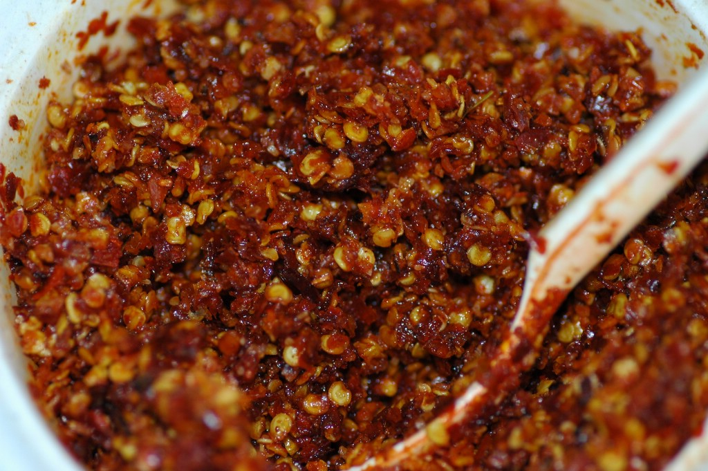 Closeup of the chilli seeds accompanying the Bun Bo Hue.Chilli